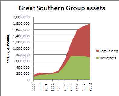 Graph showing Great Southern Group total and net assets from shortly after listing as a public company, to last annual report